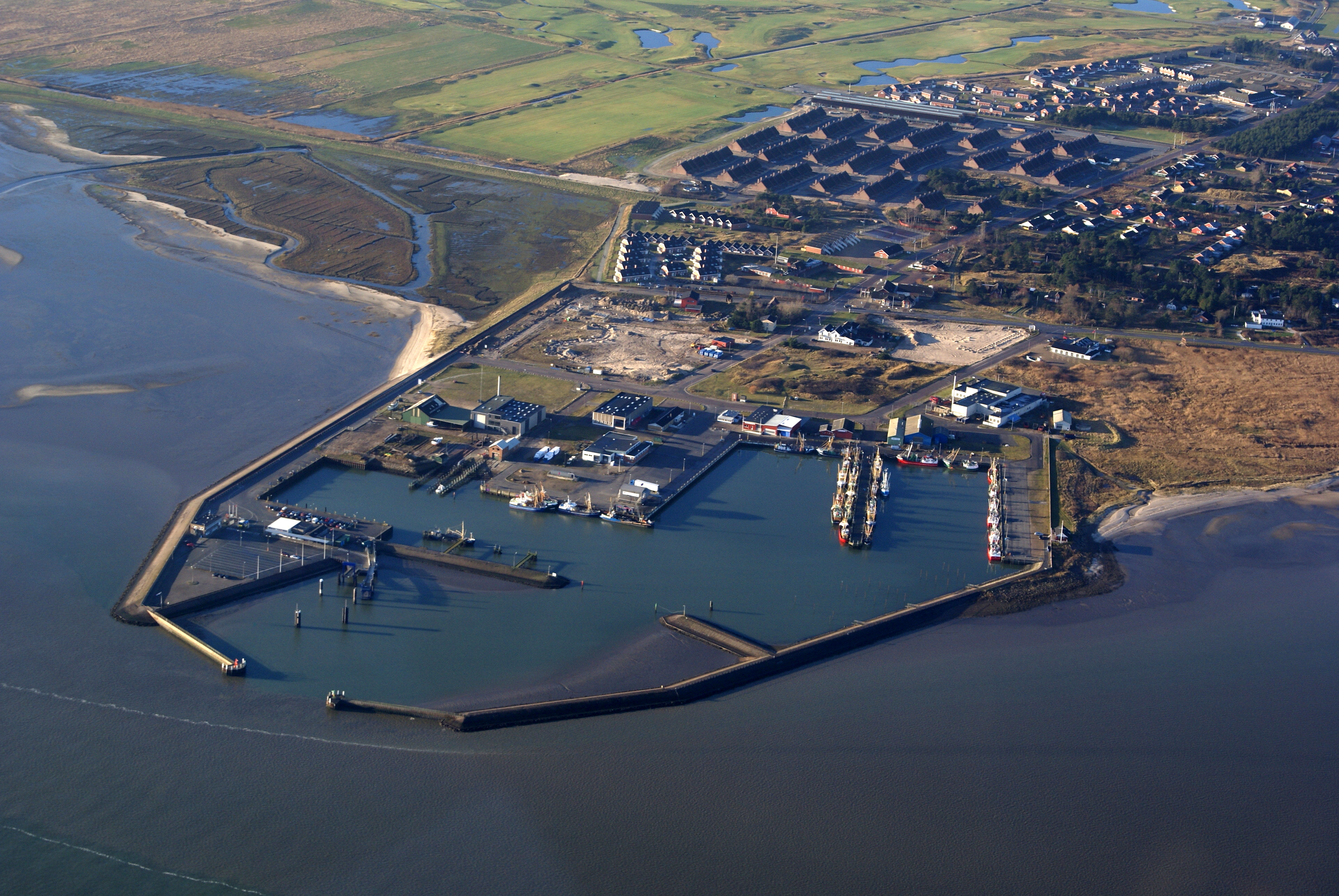 Havneby, Rømø, Denmark